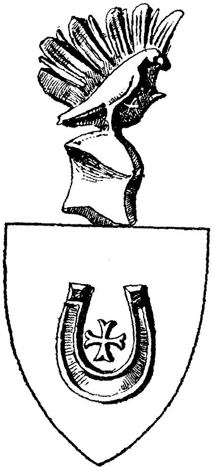 Coat of arms Jastrzębiec - the oldest depiction with crest